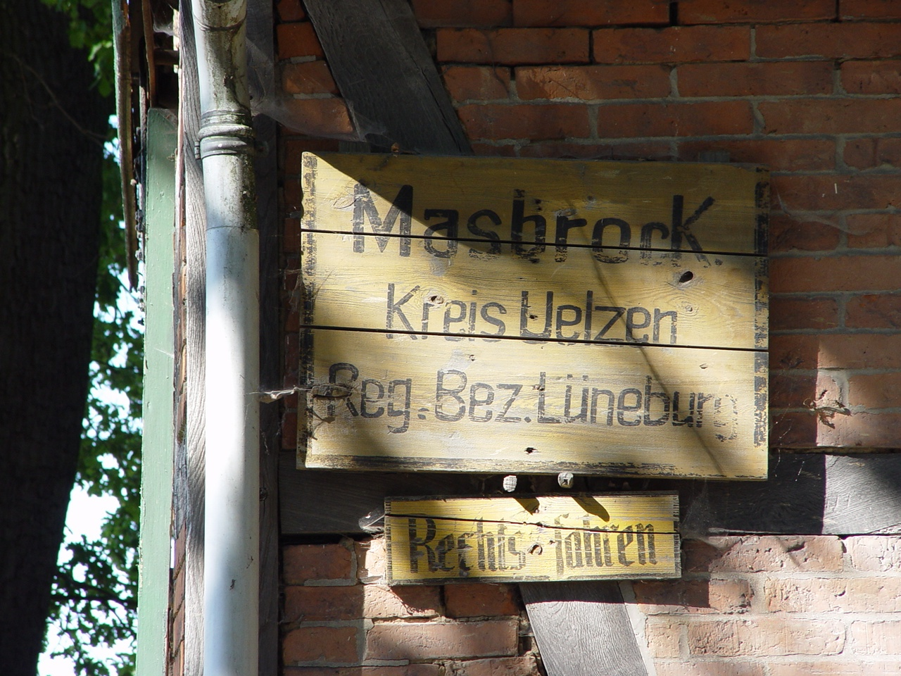 old wooden landmark of "Masbrock"